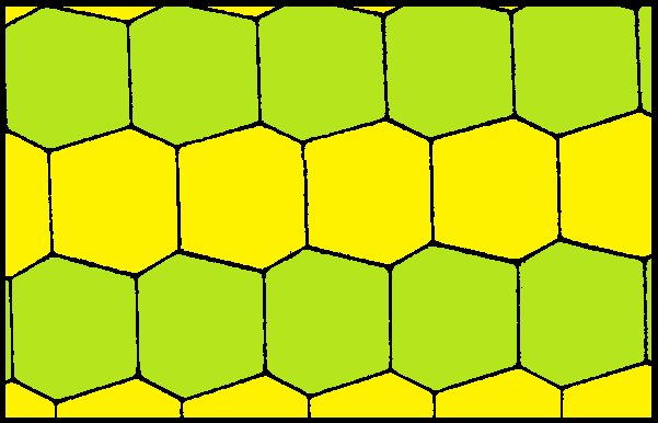 Isohedral tiling